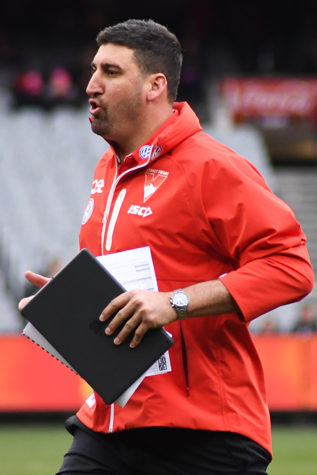 Dean Cox of Sydney during the 2018 AFL round 21 match between Melbourne and Sydney at the Melbourne Cricket Ground on Sunday, 12 August 2018 in Melbourne, Victoria.